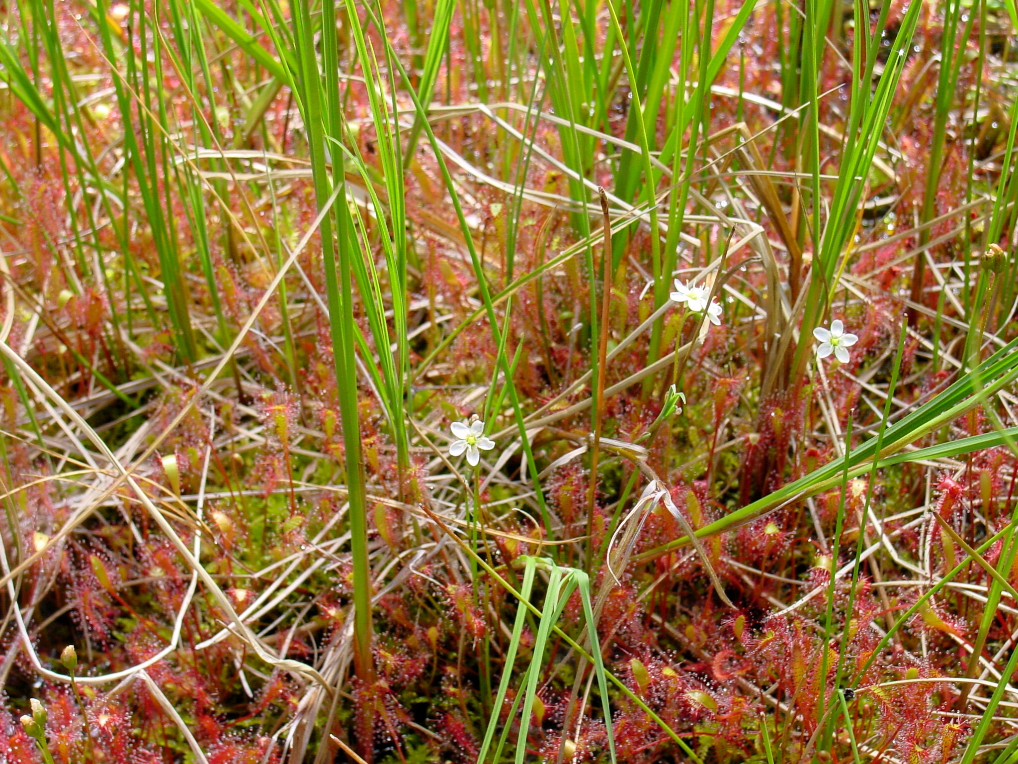 Description: D. anglica growing on sphanum on a quaking bog in OR Photo taken by: Noah Elhardt